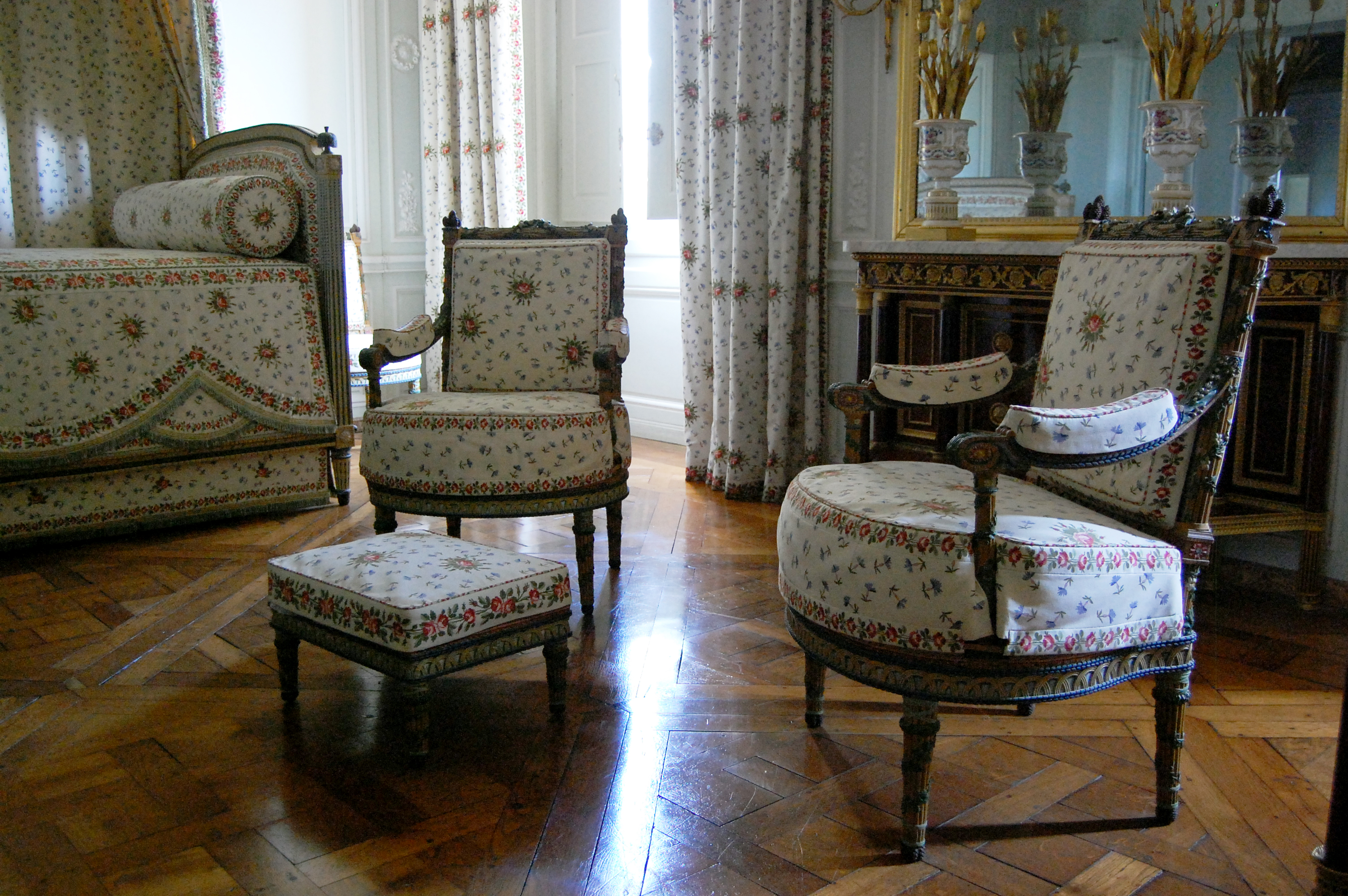 Bedroom of Marie-Antoinette of Austria - Petit Trianon